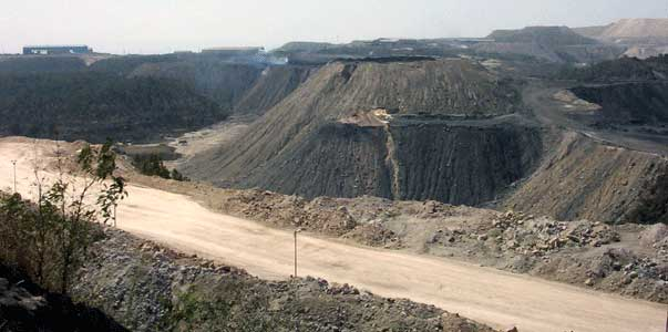 Coal mining area of NCL singrauli